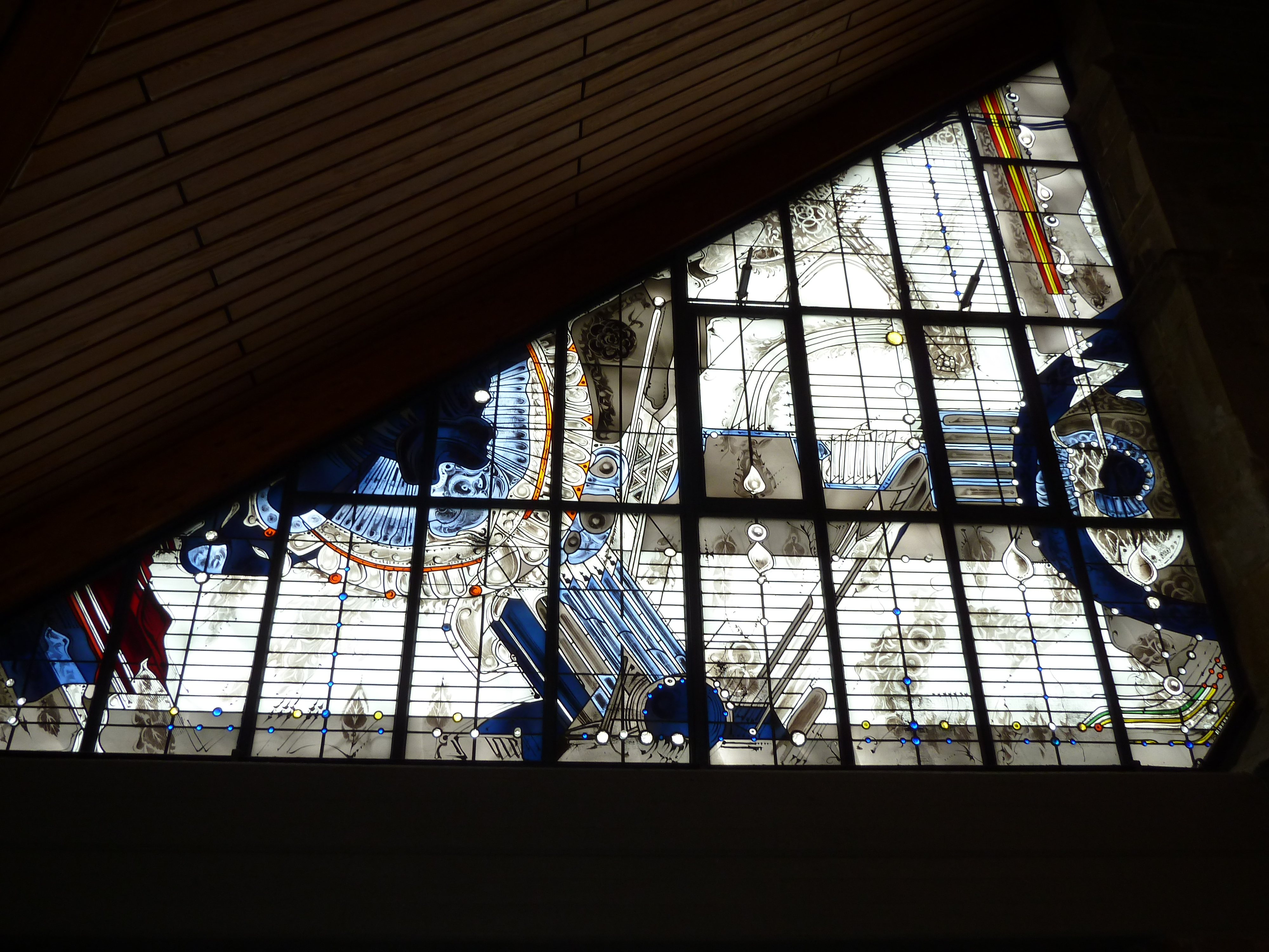 own file